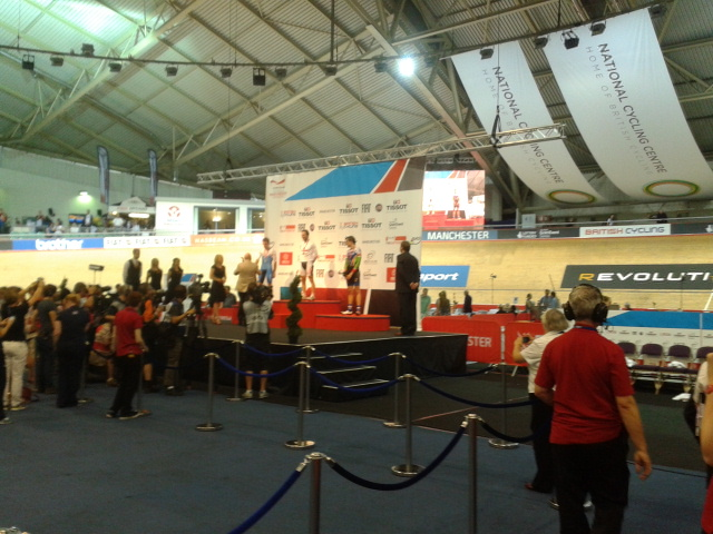 Podium of the men's scratch at Round 1 of the the 2012-13 Track Cycling World Cup in Manchester